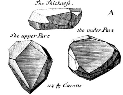 Drawing of the French Blue from Tavernier